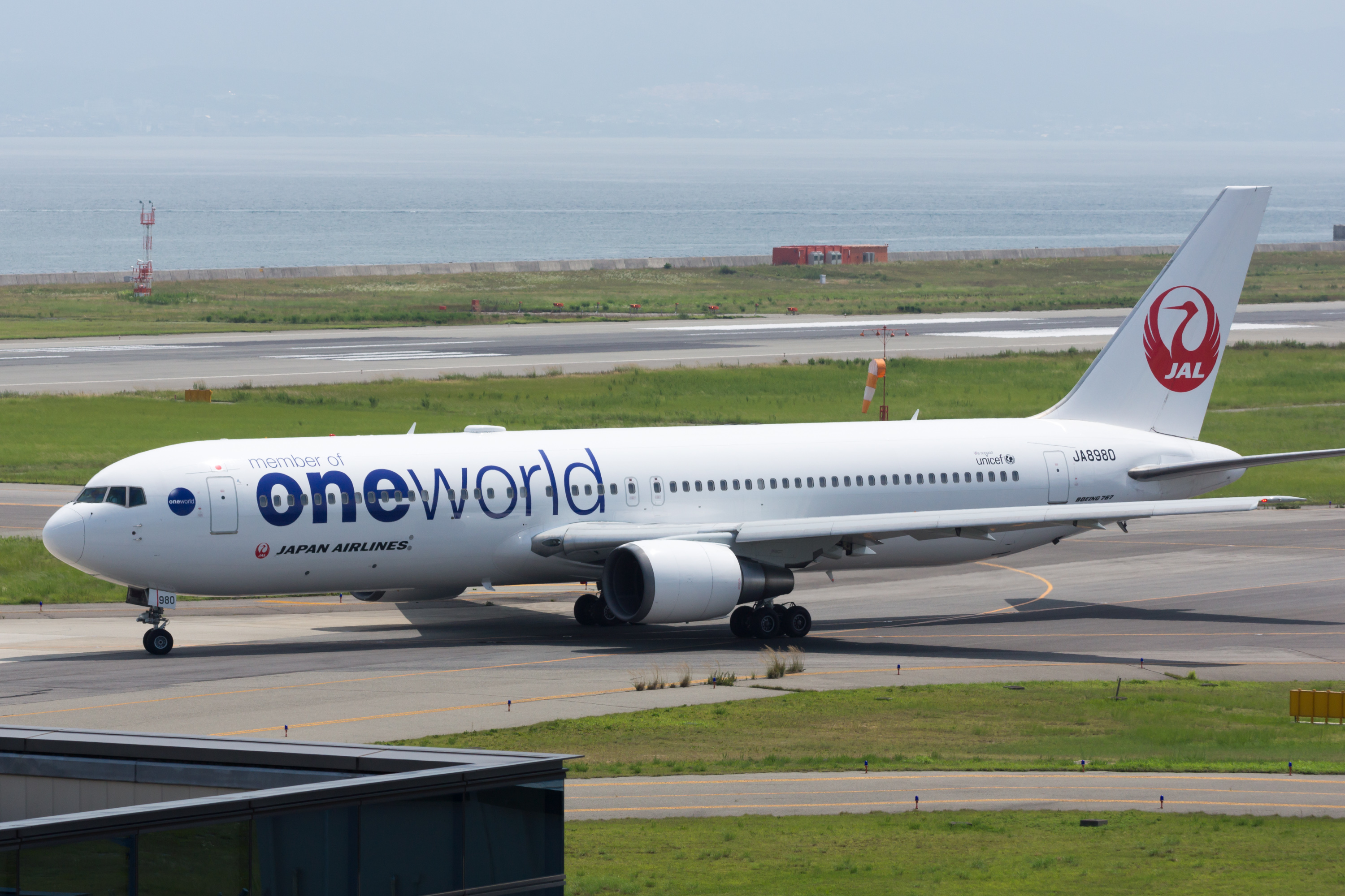 Japan Airlines / 日本航空 Boeing 767-346 JA8980 Special Marking "One World livery" JL2503, Departed to Sapporo Osaka Kansai Int'l Airport